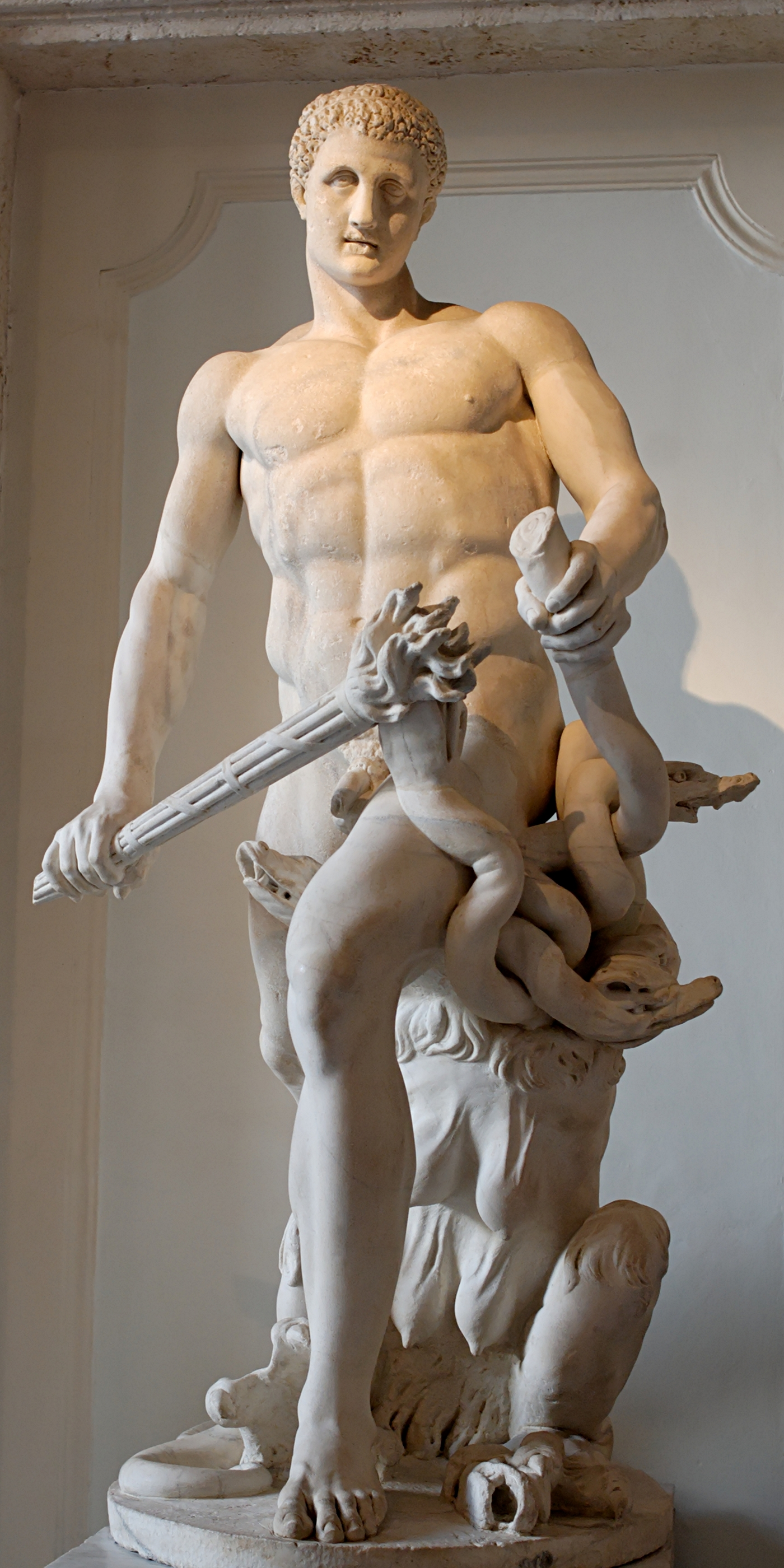 Statue of Herakles restored as killing the Lernaean Hydra. Marble, Roman copy from a Greek original of the 4th century BCE; restored ca. 1635.